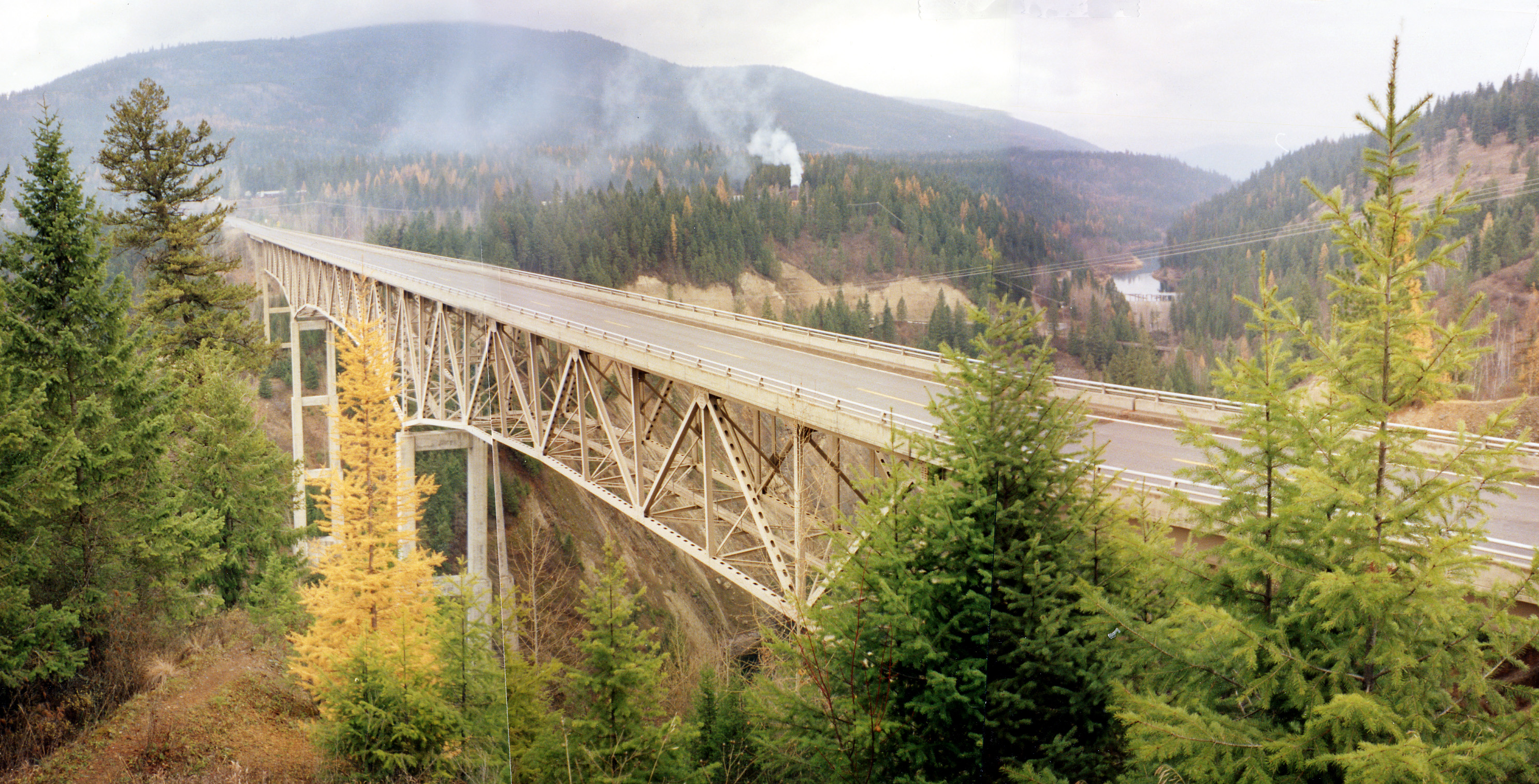 Moyie River Canyon Bridge over the Moyie River in Boundary County, Idaho near the Canadian border.